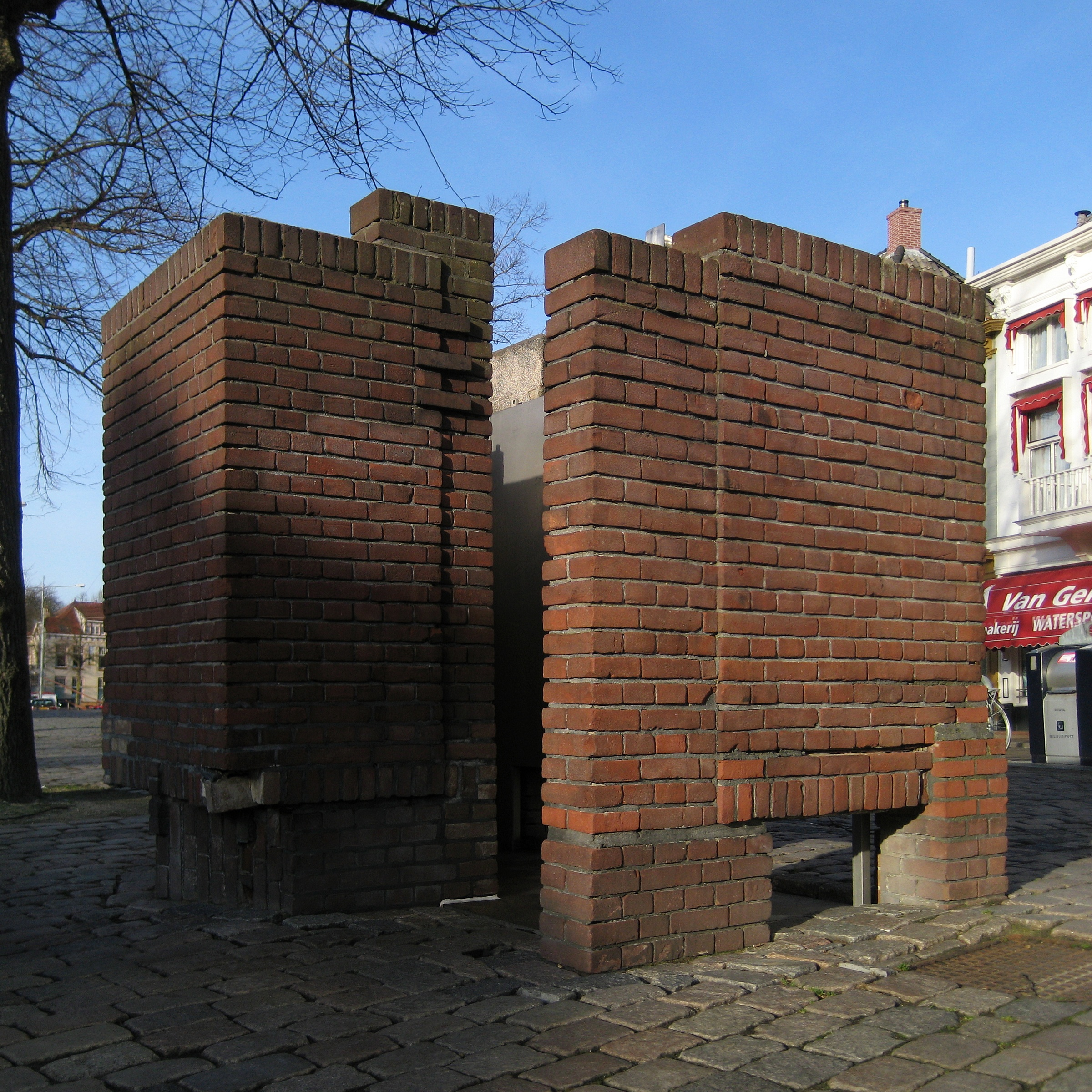 Urinal (1925) in the Dutch city of Groningen.